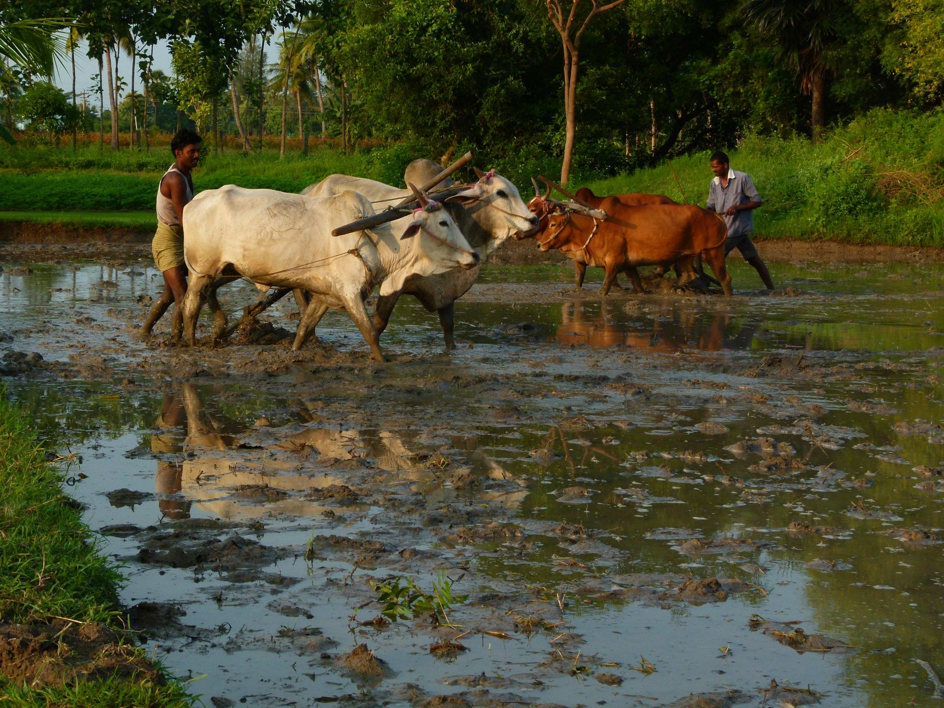 Traditional rice paddy puddling operation to reduce the water permeation by making the churning the clay in the soil